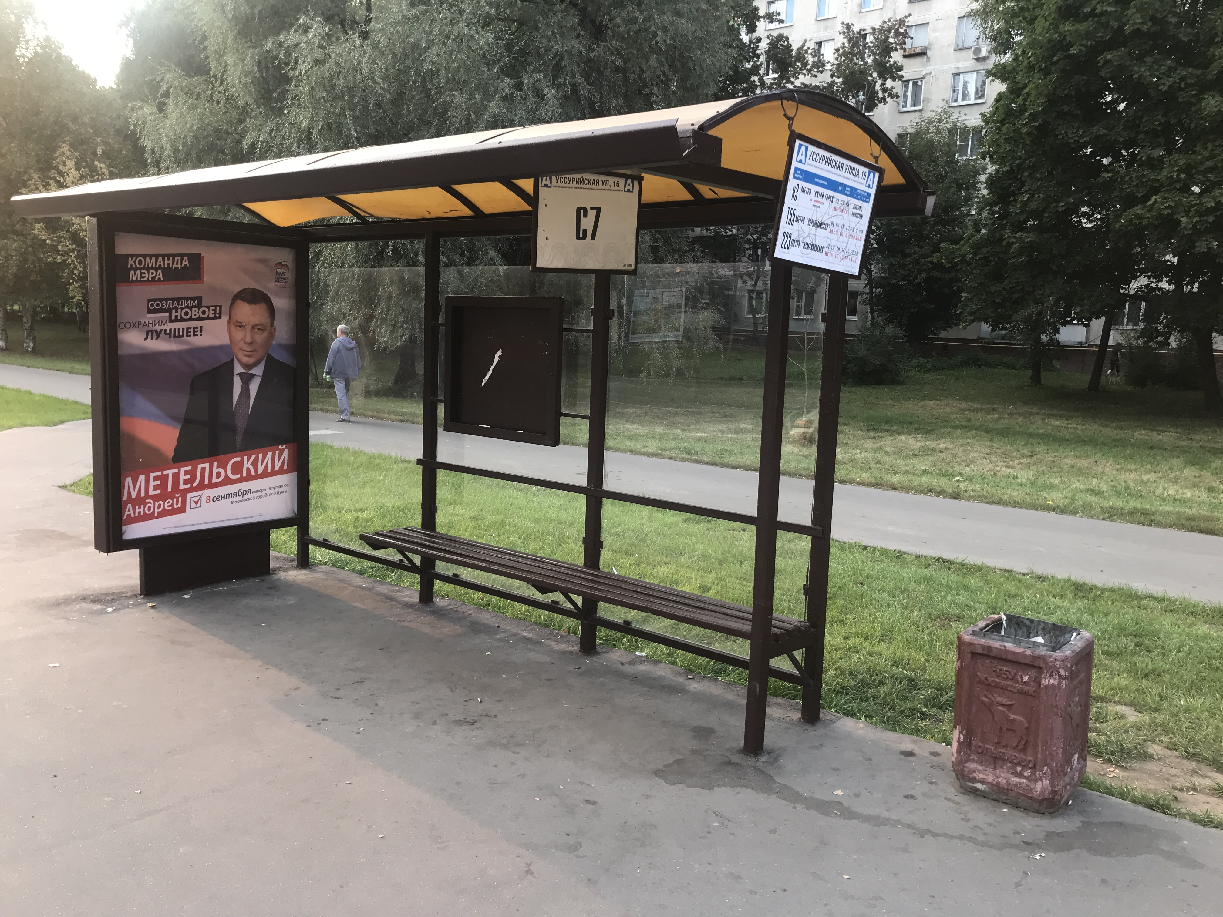 Single-member constituency No. 15 at the election of deputies to the Moscow City Duma of the 7th convocation